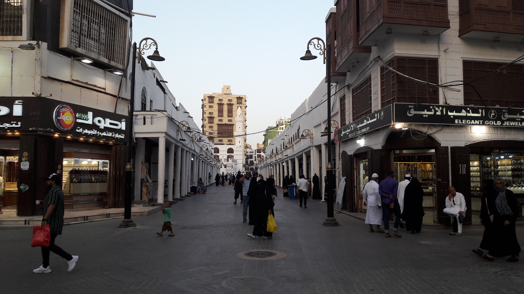 Historic Jeddah